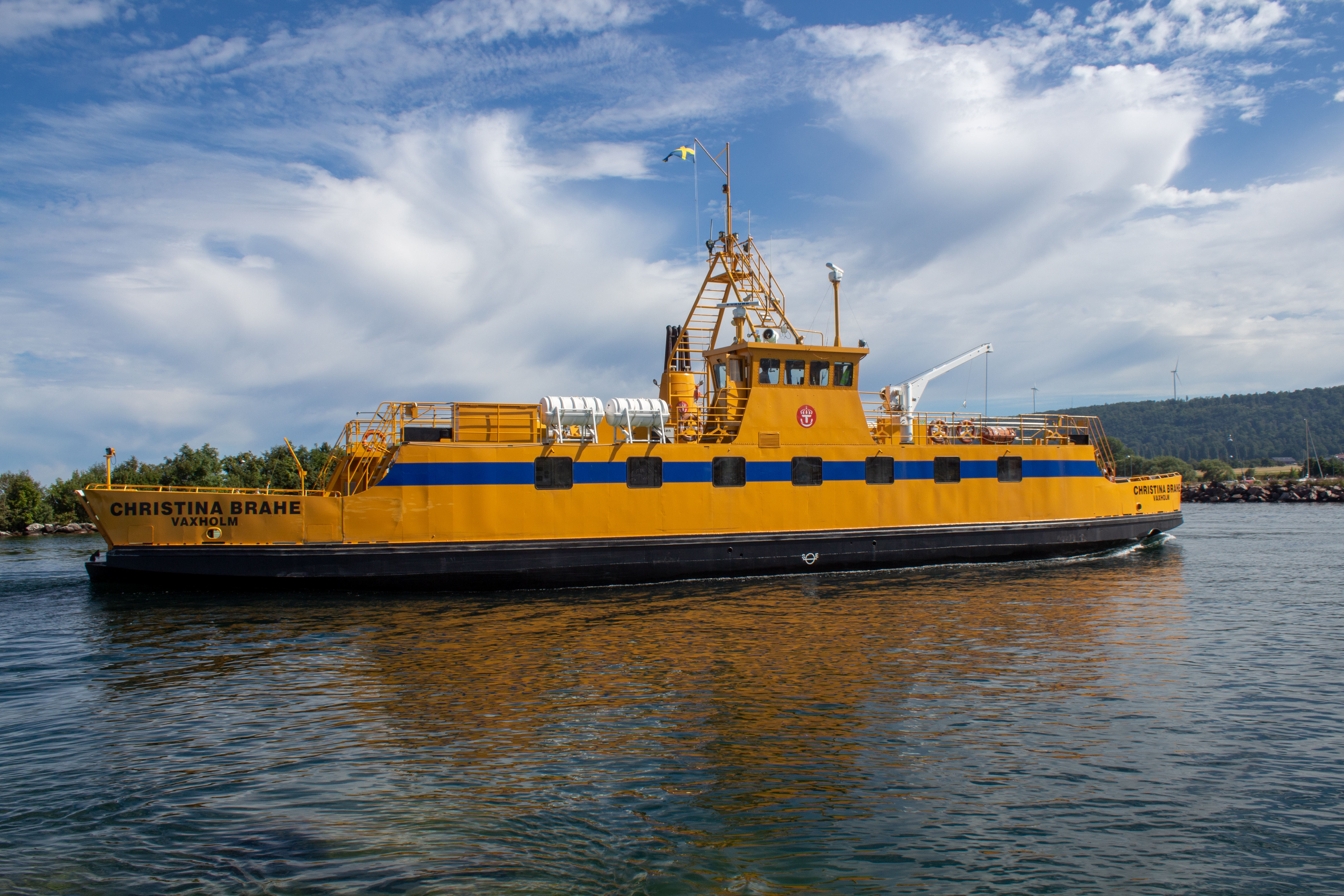 M/S Christina Brahe just about to arrive at Gränna harbour (coming from Visingsö)